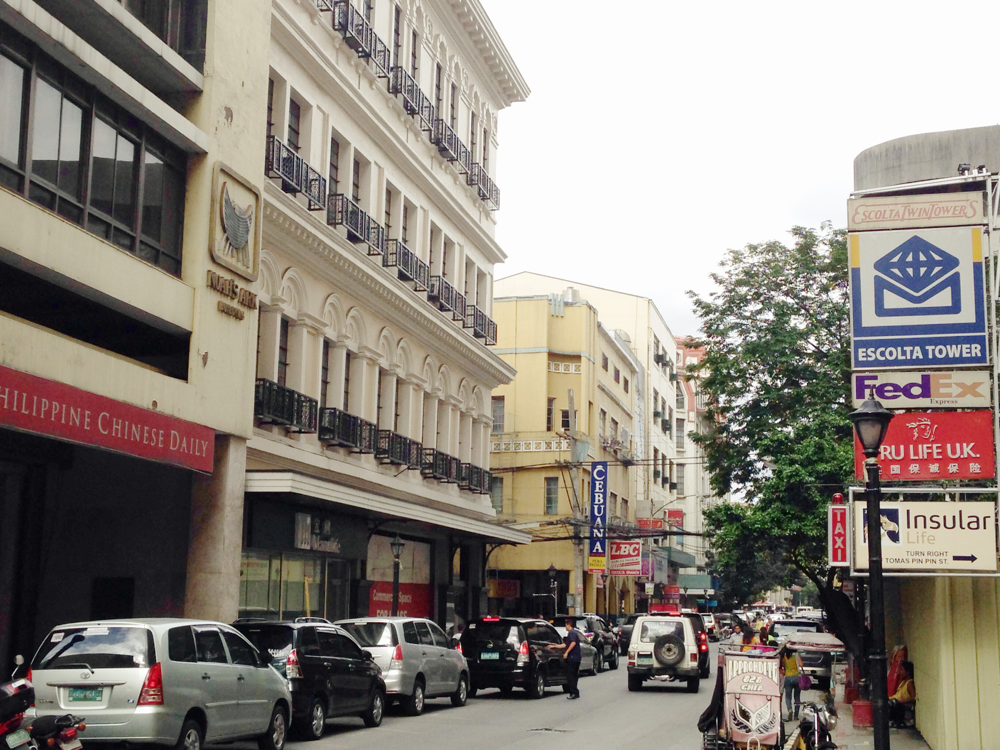 Escolta Street, Manila, Philippines